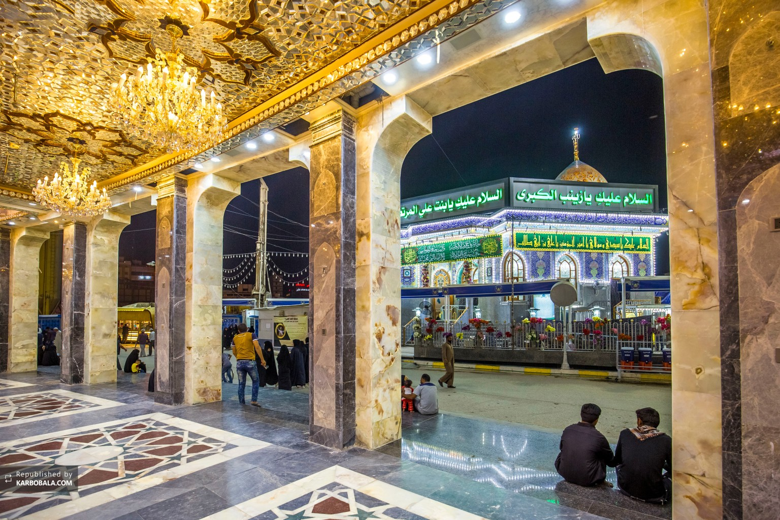 Tale Zeynabieh